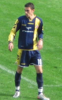 Association footballer Ryan Fenech, taken in Malta